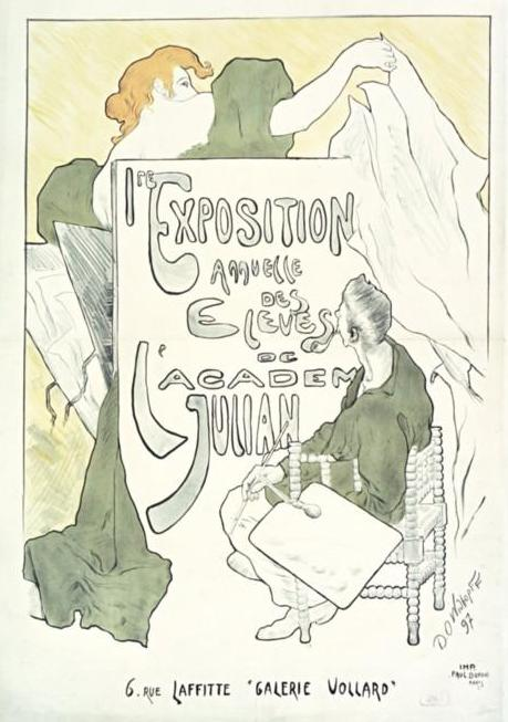 Academie Julian first yearly exhibition, 1897